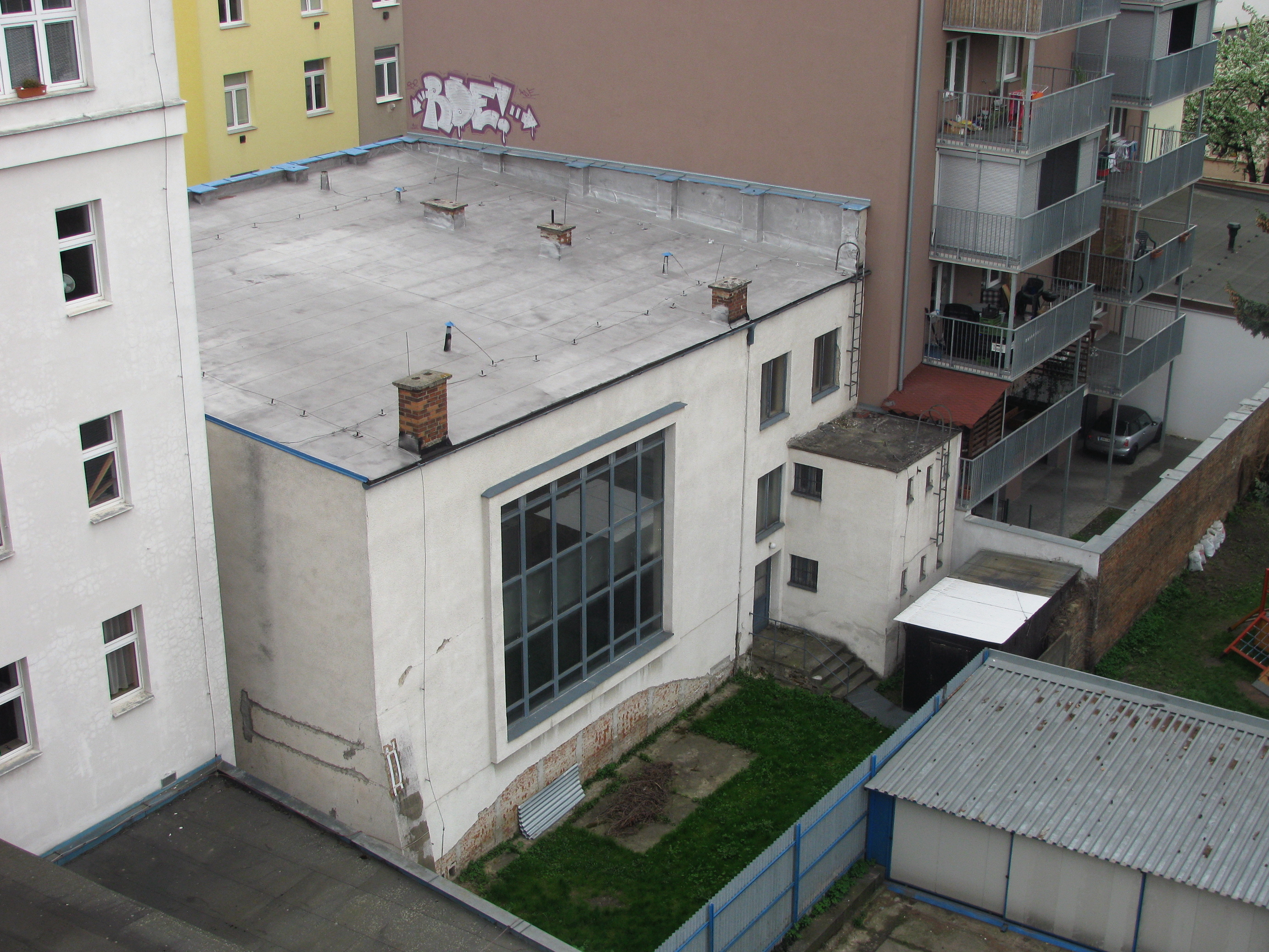 Modern synagogue Agudas Achim in Brno, Czech Republic, built by Otto Eisler in 1934.